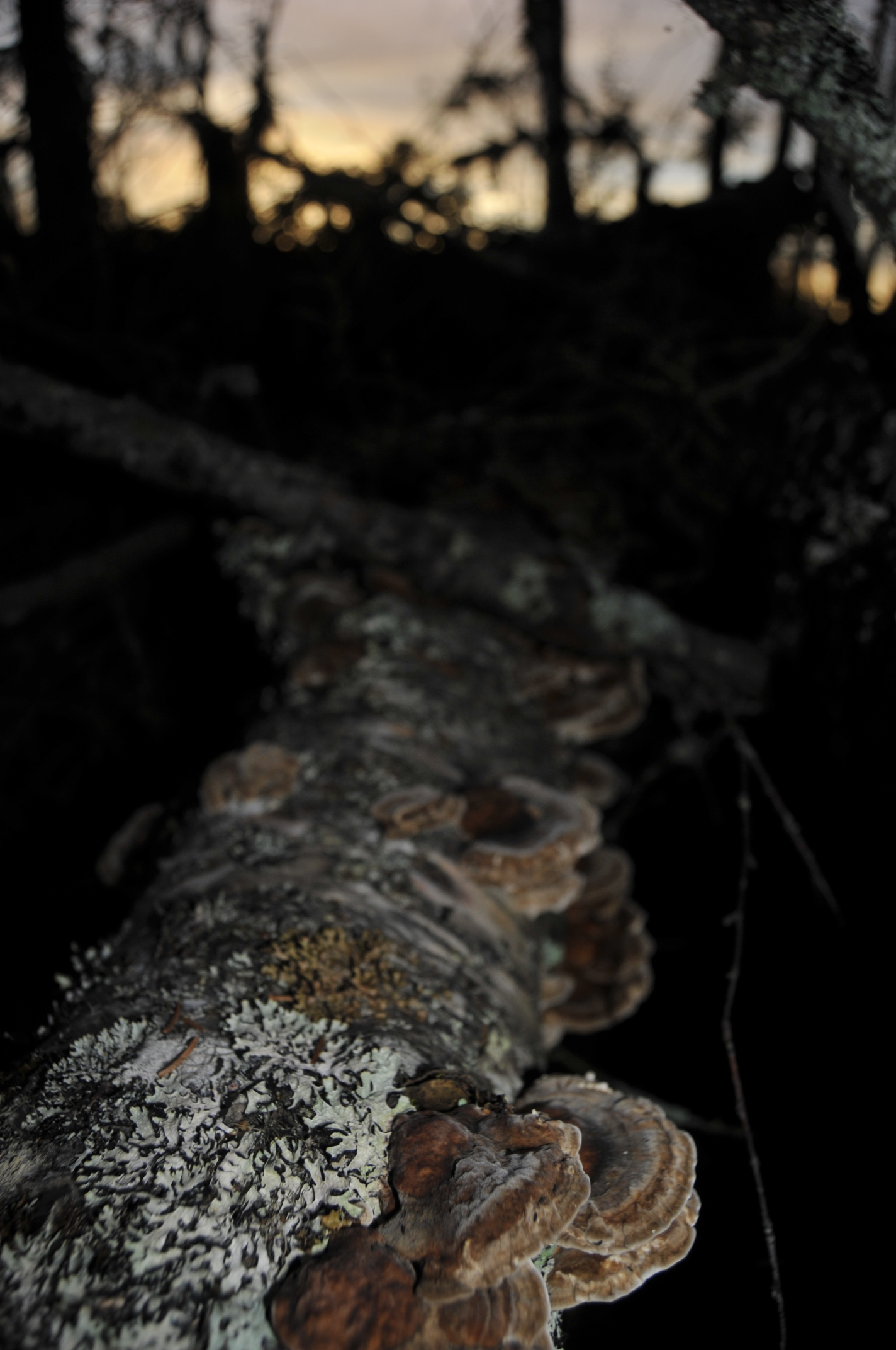 Nordanbergsbergets nature reserve in Jämtland, Sweden